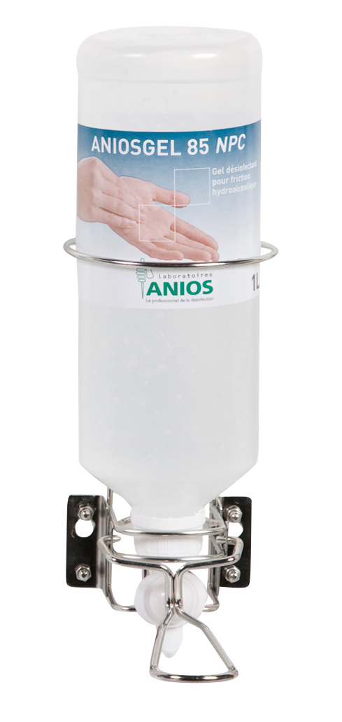 ANIOSGEL 85 NPC Bottle with dispenser